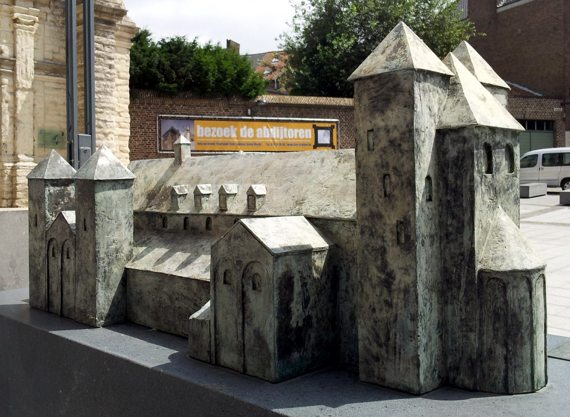 Bronze model of the destroyed abbey church of the Benedictine abbey in Sint-Truiden, Belgium. The model stands in front of the one remaining church tower.